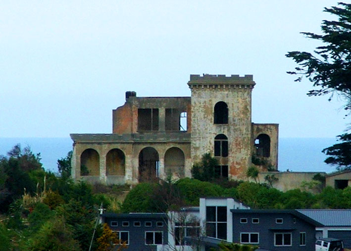 The ruins of Cargill's Castle, Dunedin, New Zealand (photographed August 2007 by User:Grutness)